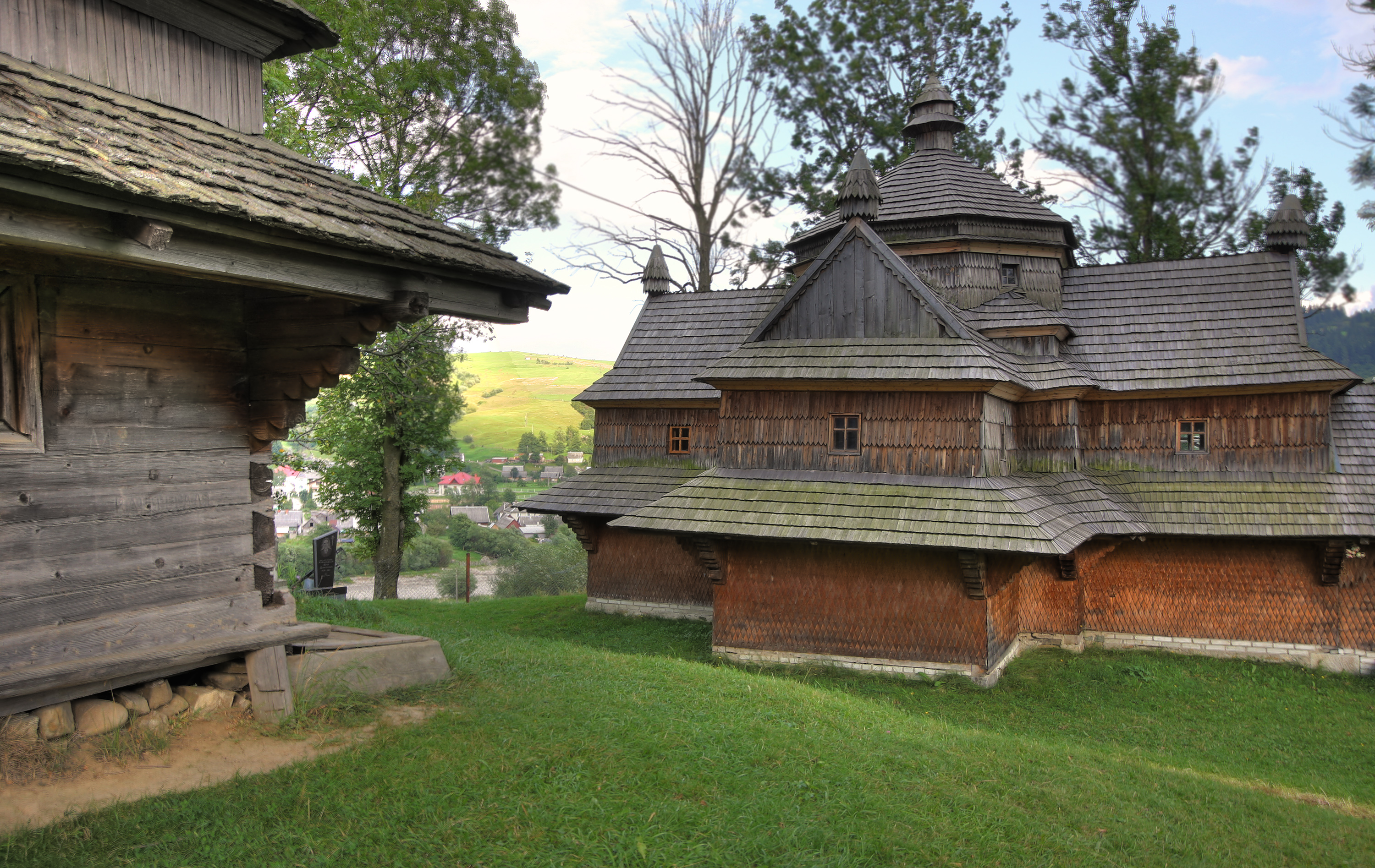 Church of the Ascension of Jesus ("Strukivska Church"), Yasinia, Rakhiv Raion, Zakarpattia Oblast, Ukraine